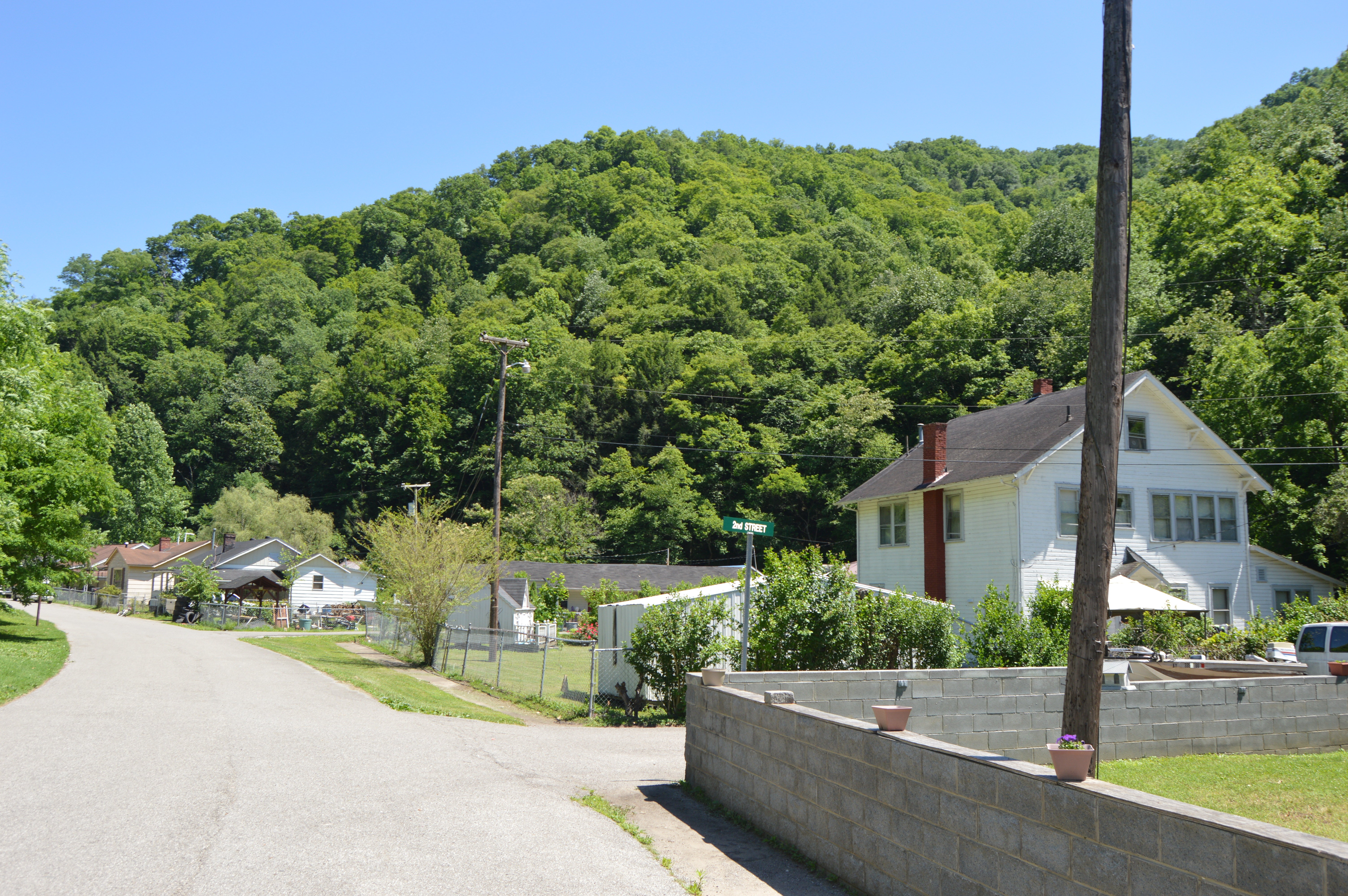 Looking east on Lower Burton Road near the Second Street intersection at Burton in Floyd County, Kentucky, United States.